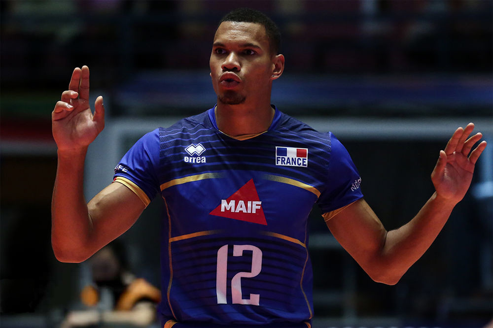 Stéphen Boyer in a match against Portugal during 2019 FIVB Volleyball Men's Nations League in Ardabil, Iran.